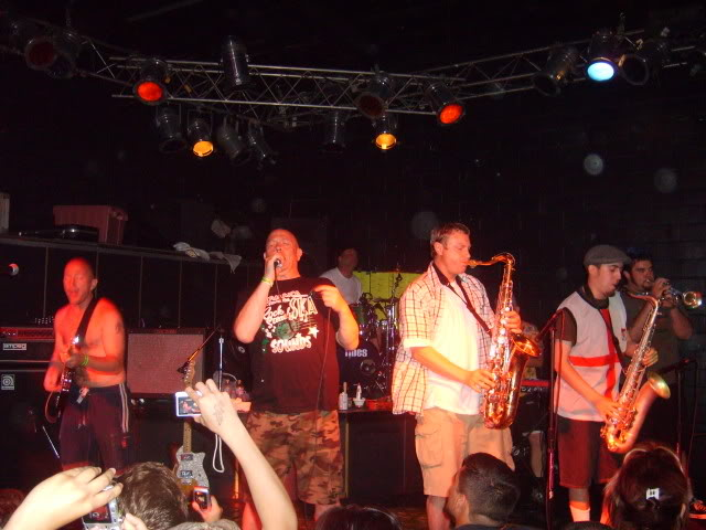 Bad Manners performing in 2007.